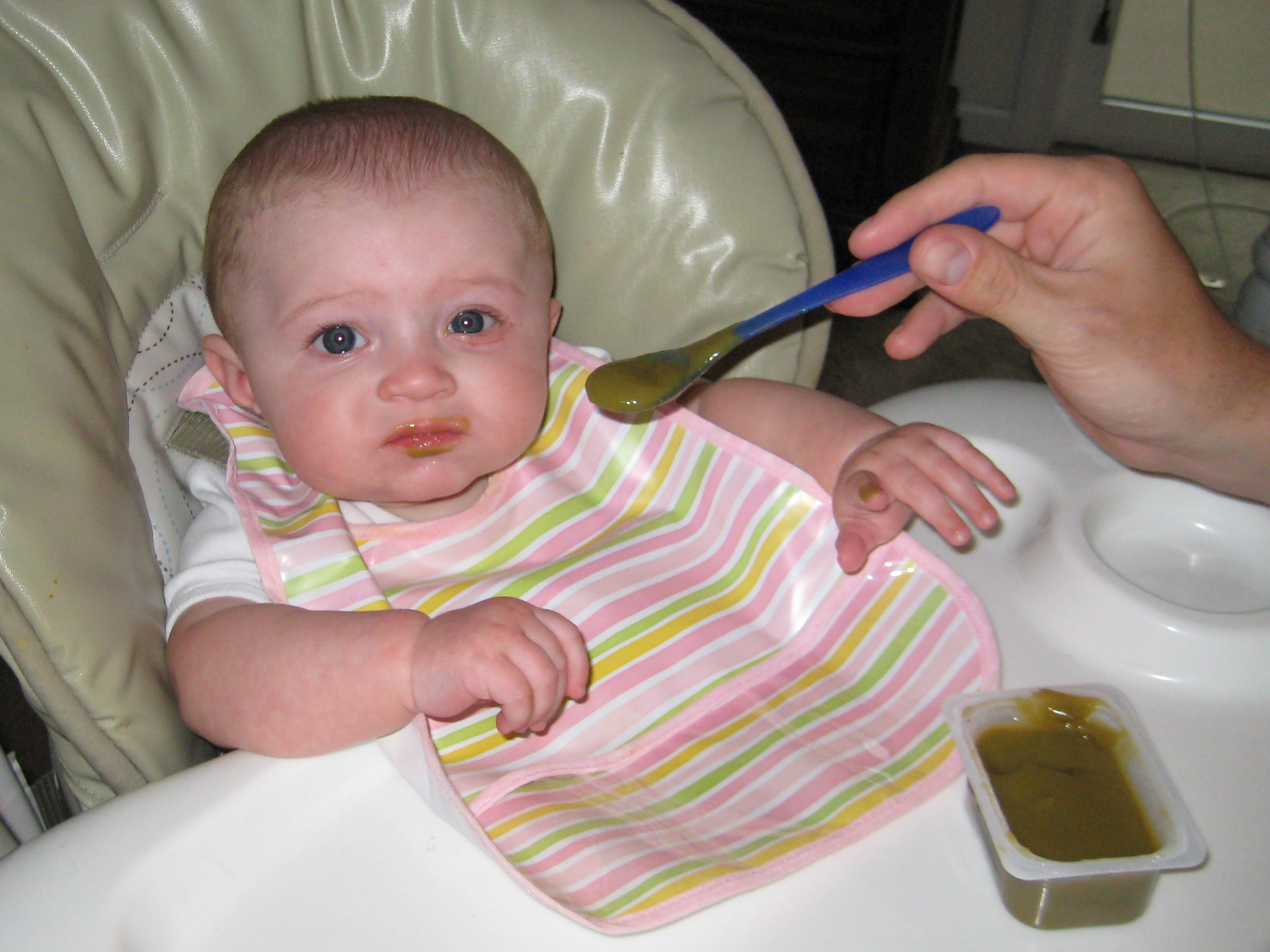 Baby eating baby food (blended green beans)